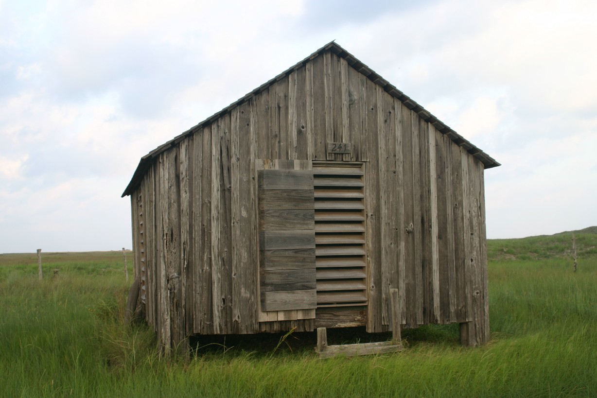 Dunn Ranch Novillo Line Camp Bunkhouse A in Padre Island National Seashore, Texas, USA